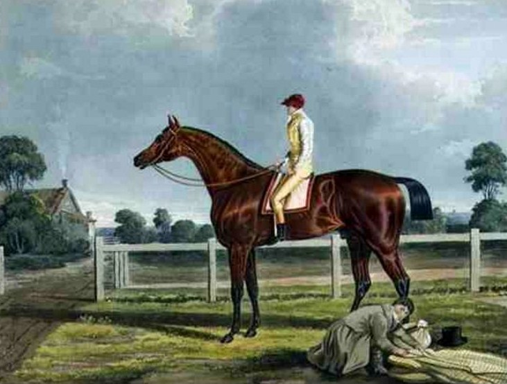 Painting of the racehorse Reveller, winner of the 1818 St Leger, by John Frederick Herring, Sr. (1795-1865)